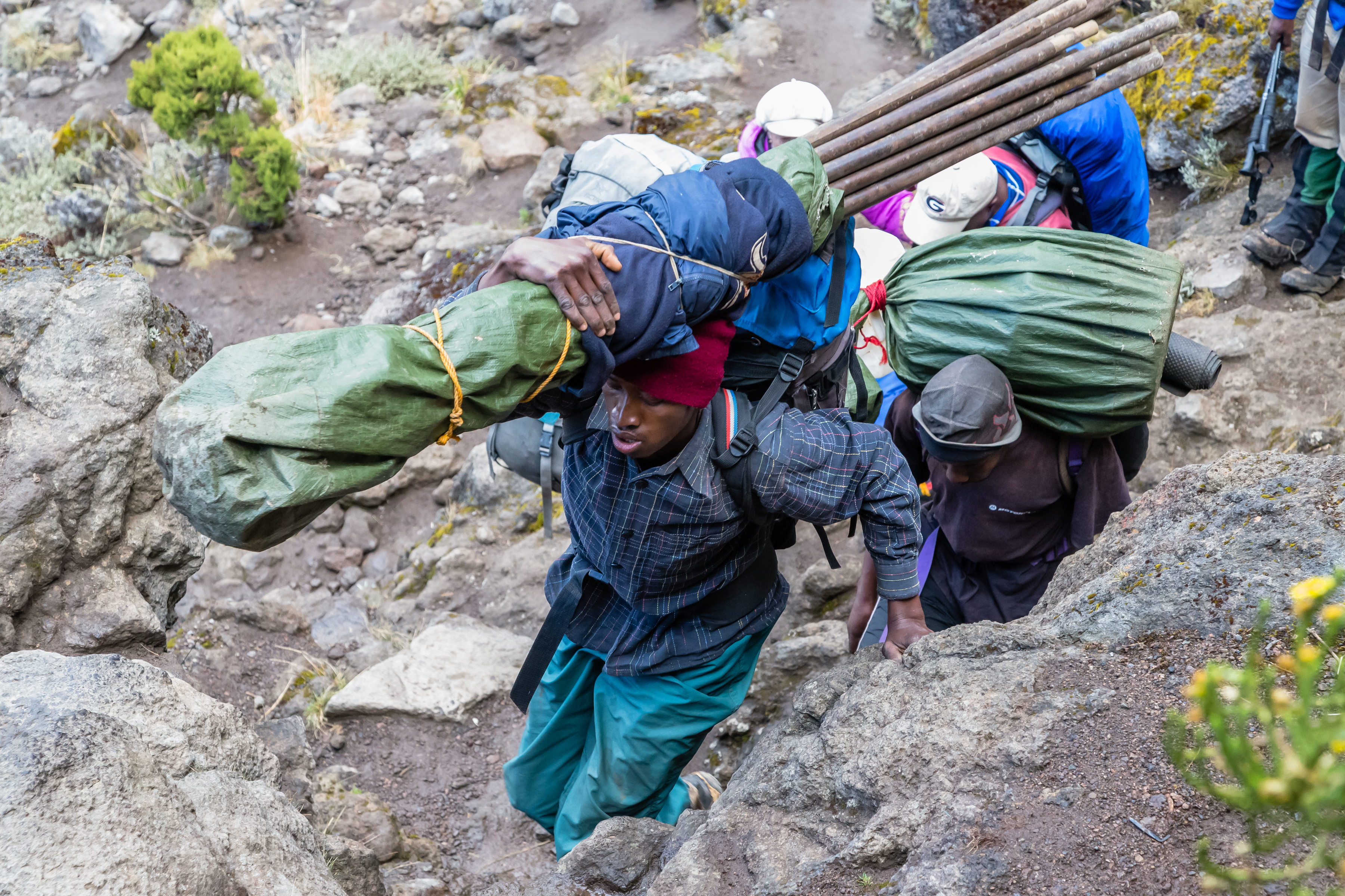 This is an image of "African people at work" from Tanzania